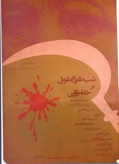 Khaneh barani